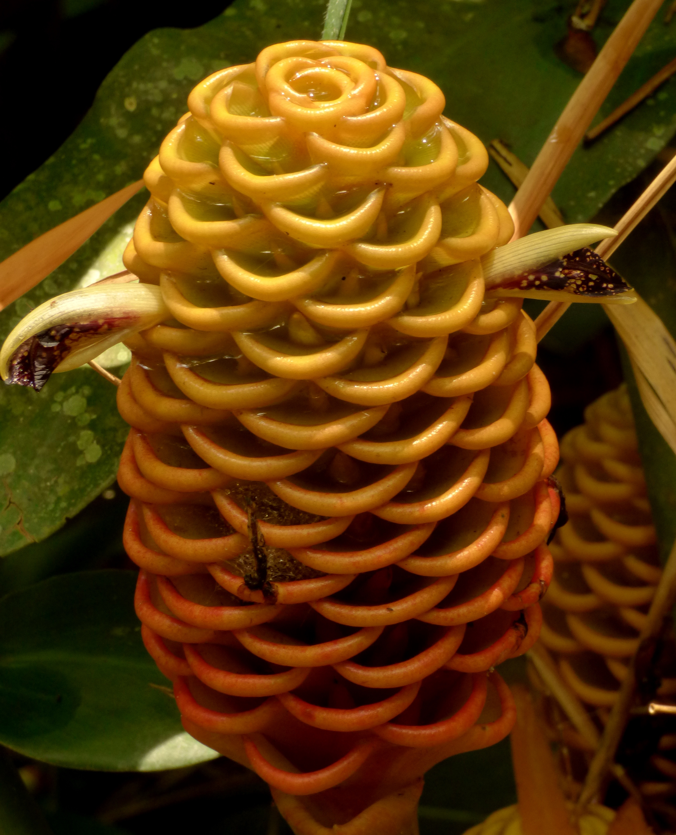 Maraca - Ginger shampoo (Zingiber spectabile)